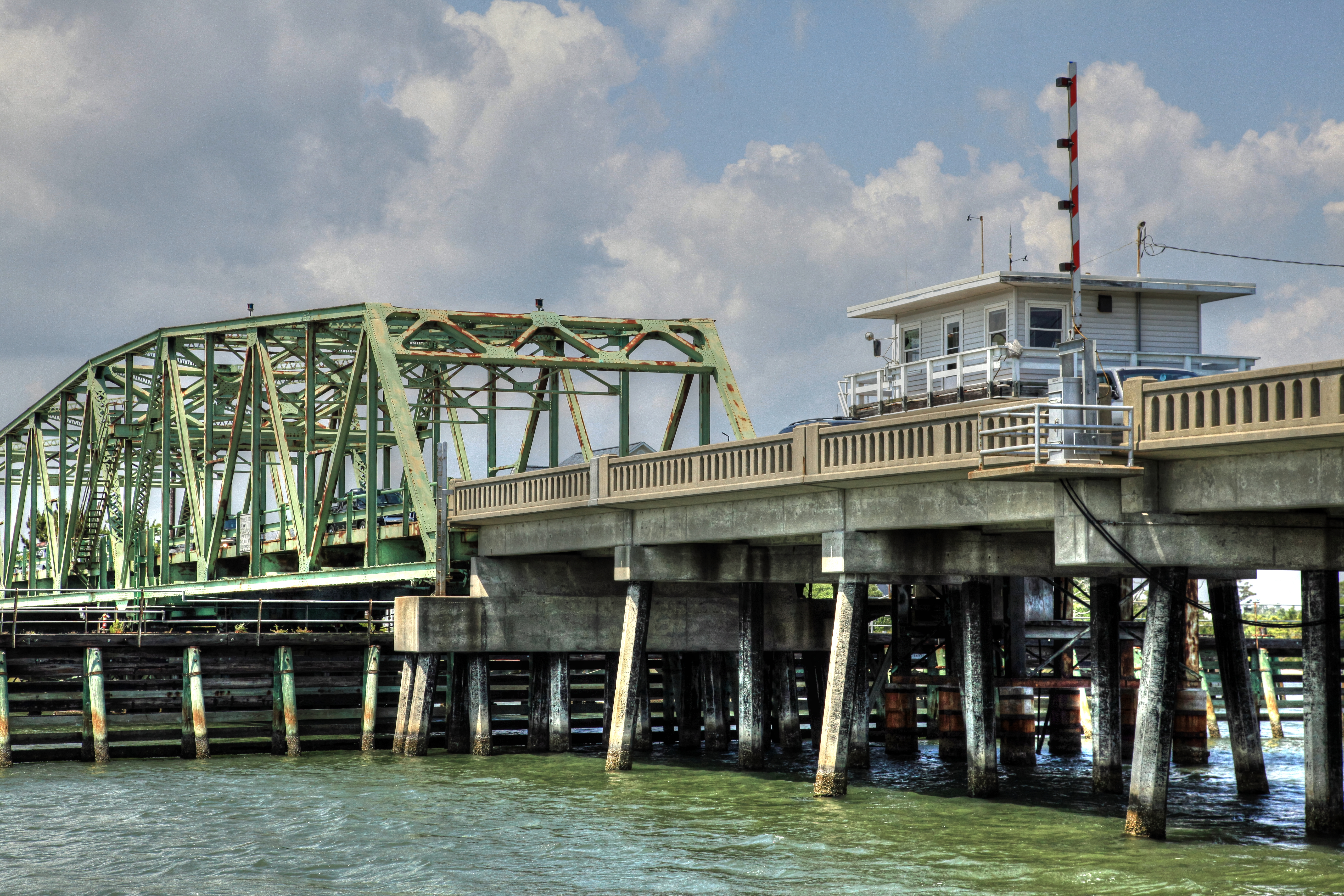 The Surf City Swing Bridge in Surf City, North Carolina. This bridge is due to be replaced around 2018 by a new, high bridge that has been under construction since late 2016.